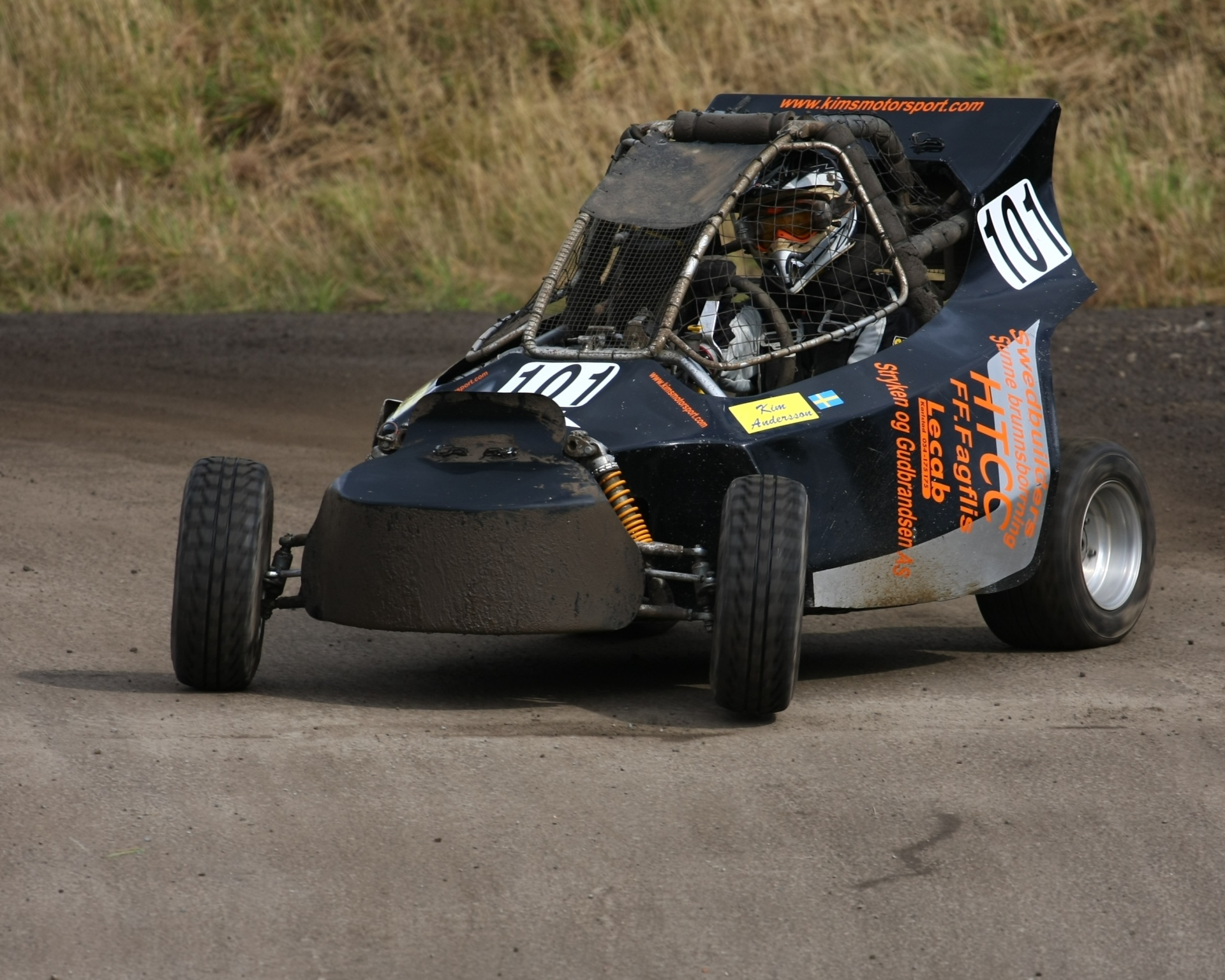 Cross cart racing.